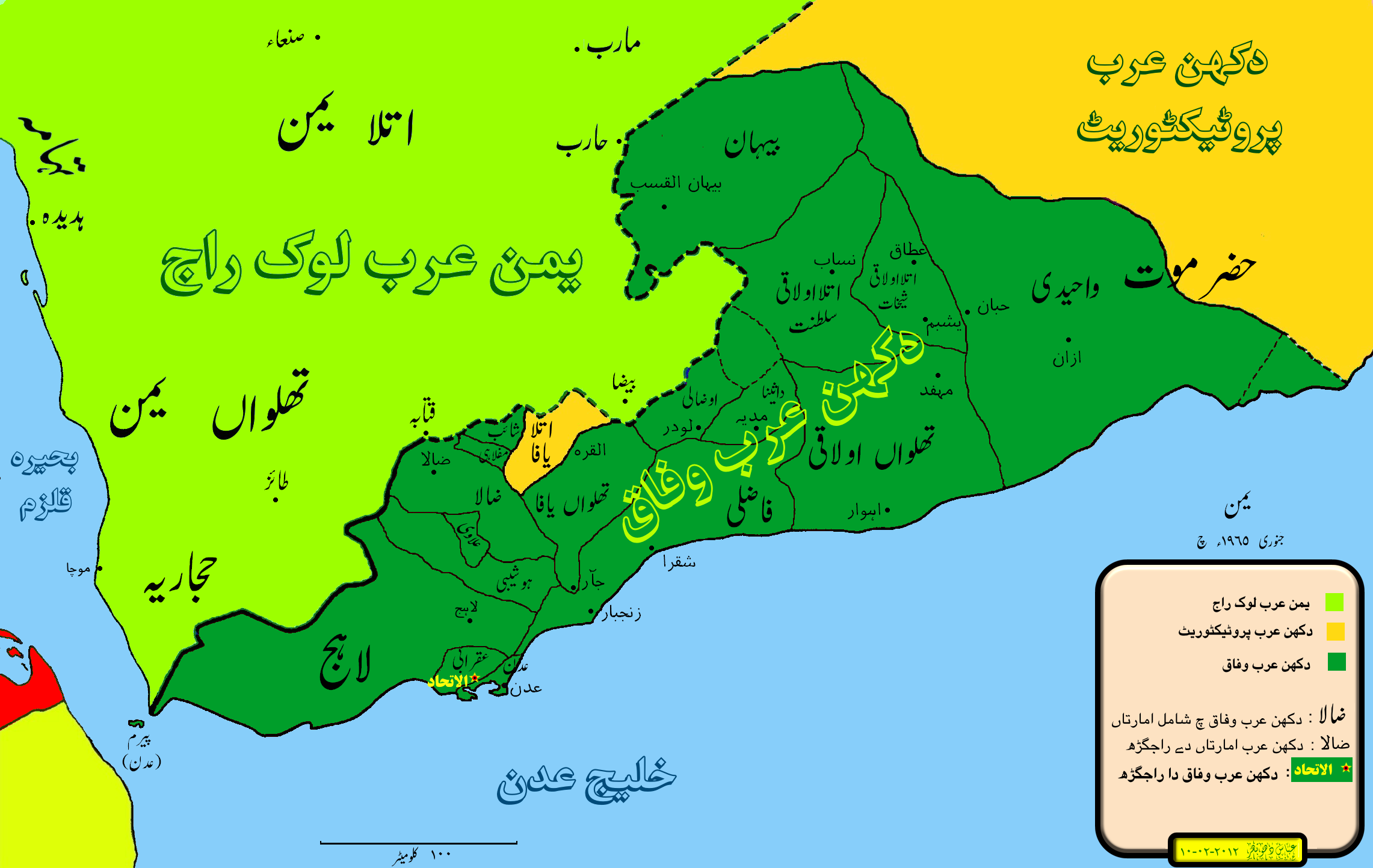 south arab federation map in punjabi